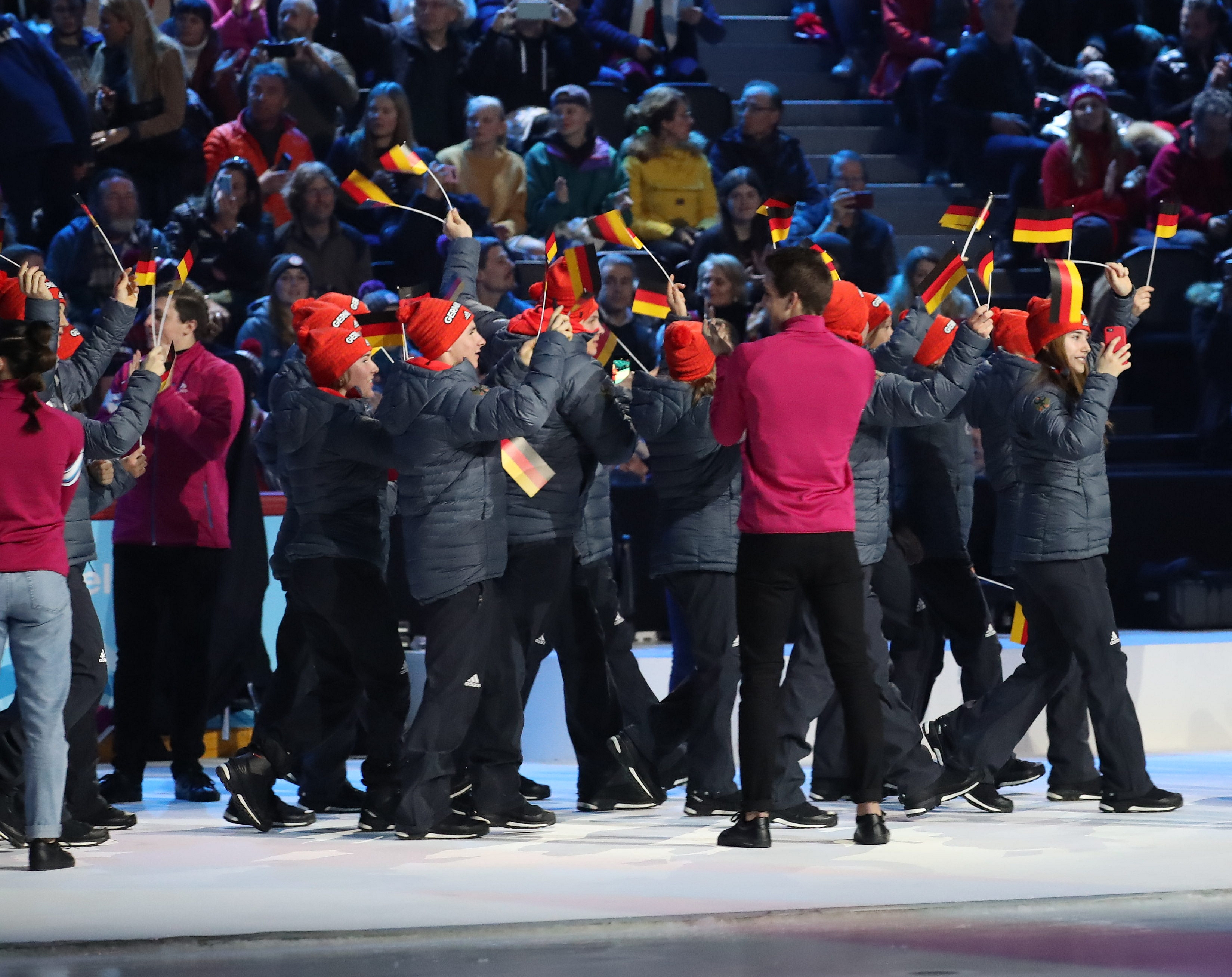 Opening Ceremony YOG 2020. German delegation.